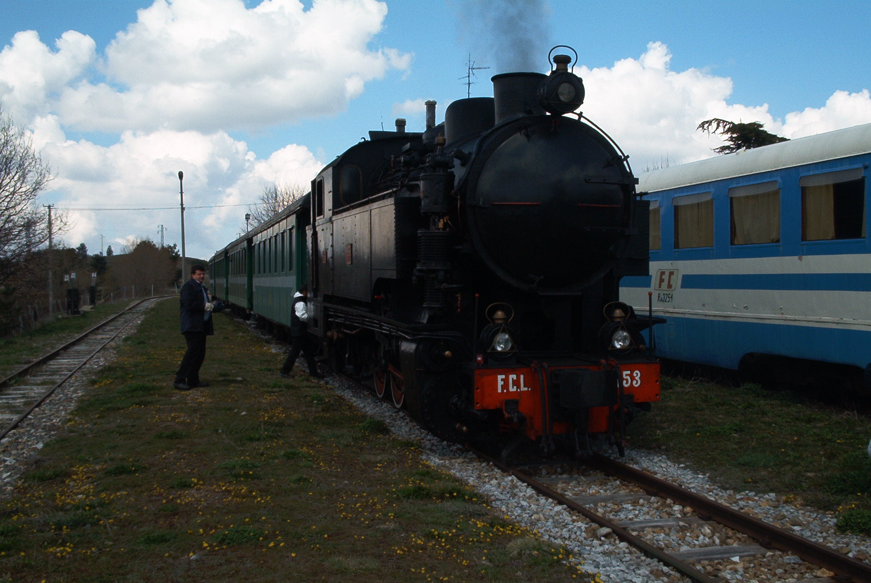 FCL 353 steam locomotive in San Nicola Silvana Mansio